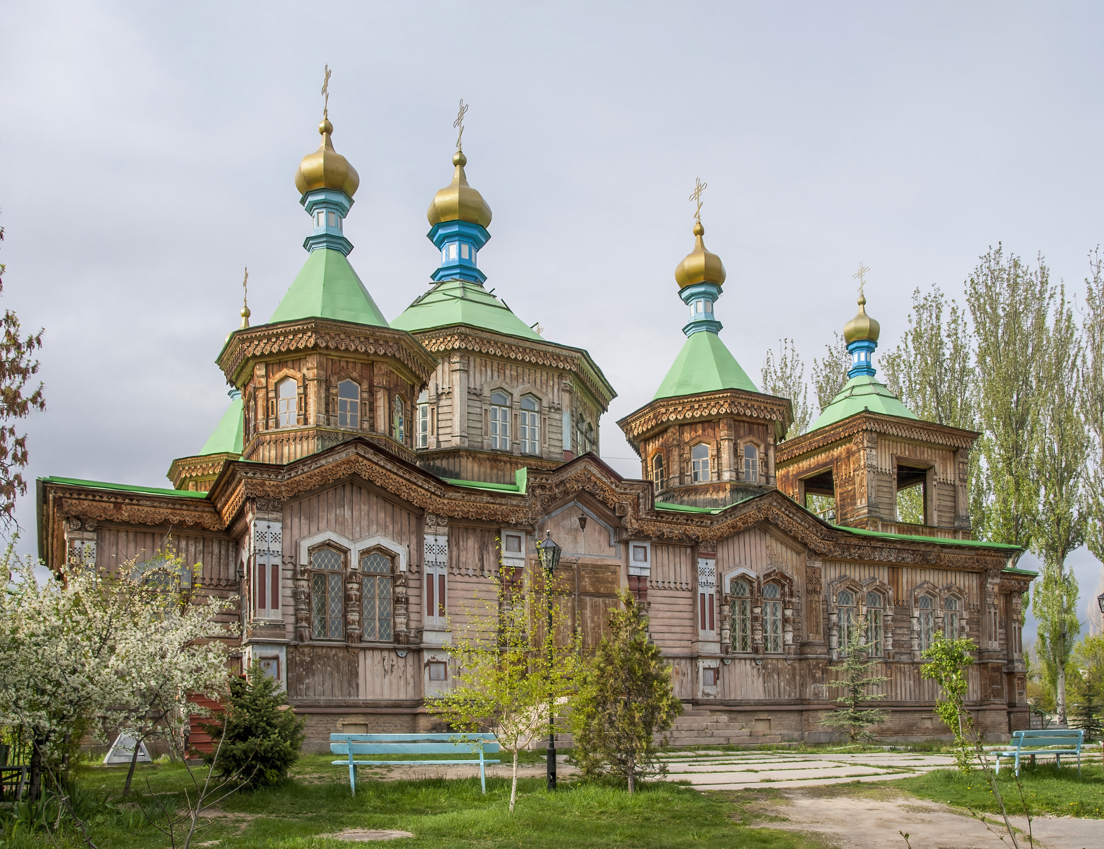 Russian Orthodox church of Holy Trinity in Karakol, Kyrgyzstan. Српски (ћирилица): Руска Православна црква Св. Тројице у граду Каракол, Киргистан.